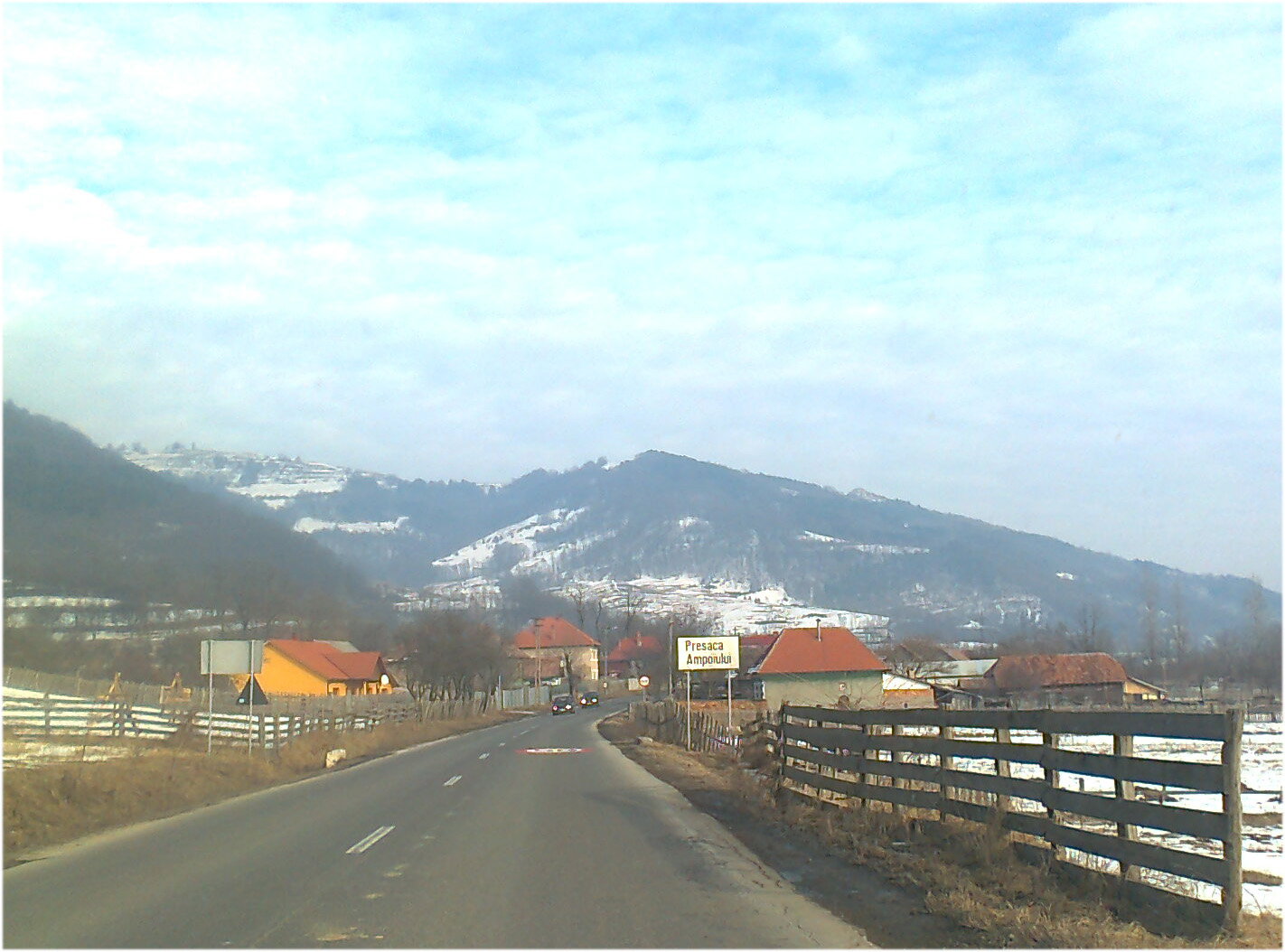 Presaca Ampoiului, Transylvania, Romania